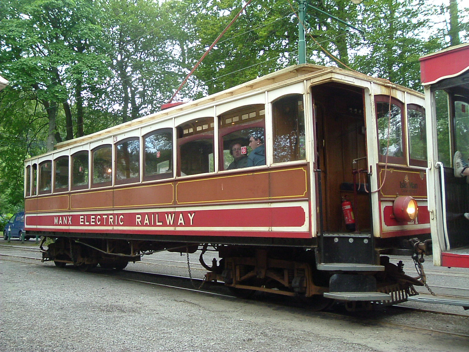 Manx Electric Railway Car No. 21 A photo of an electric train from the Isle of Man. Taken by me.